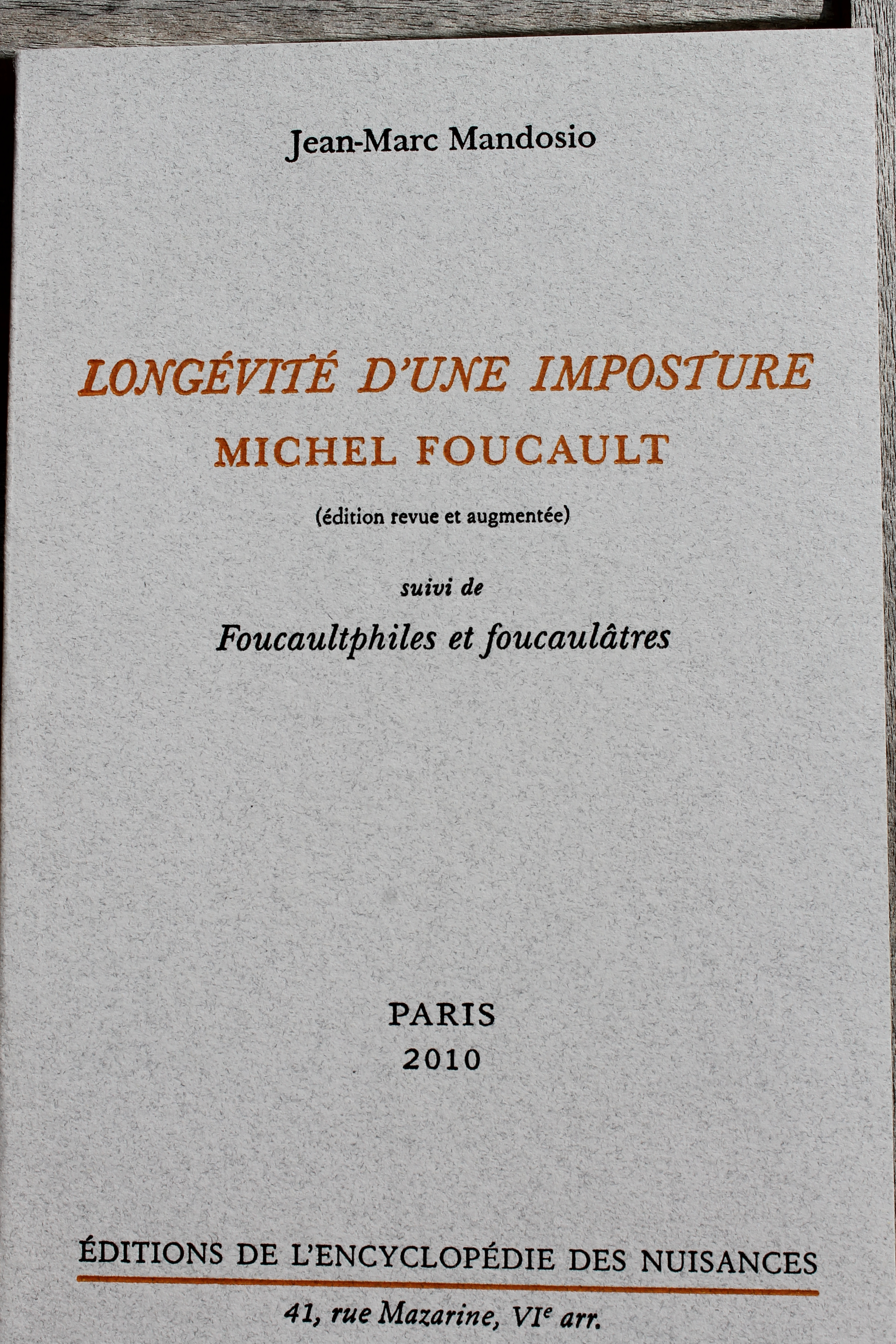 Jean-Marc Mandosio, Longévité d'une imposture : Michel Foucault